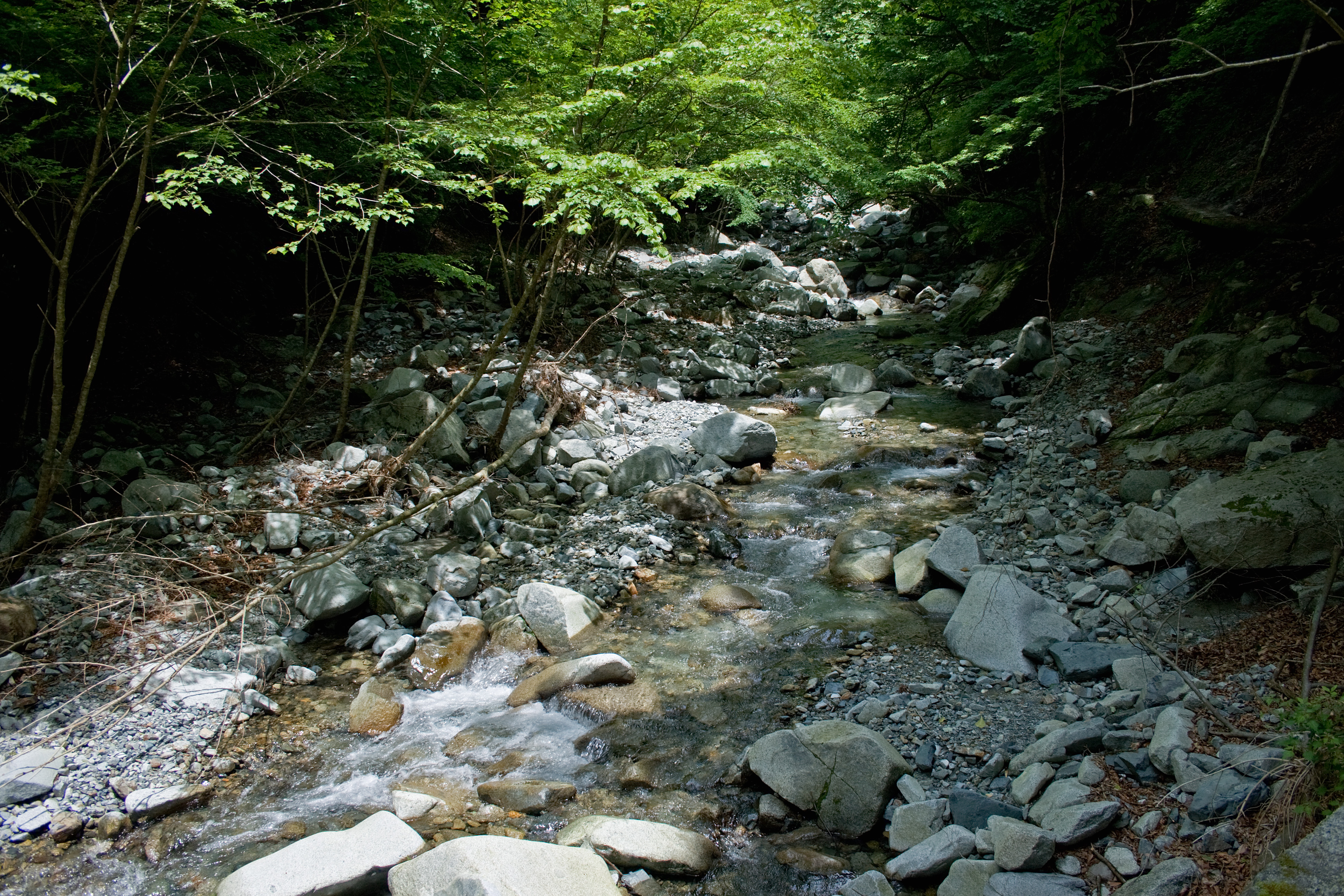 Yōkisawa stream (用木沢 Yōki-sawa) at Mts.Tanzawa, Kanagawa, Japan.